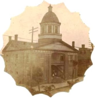 The old county courthouse in Greeneville, Tennessee, United States. This courthouse was built in the 1820s, and demolished with the completion of the current courthouse in 1916.